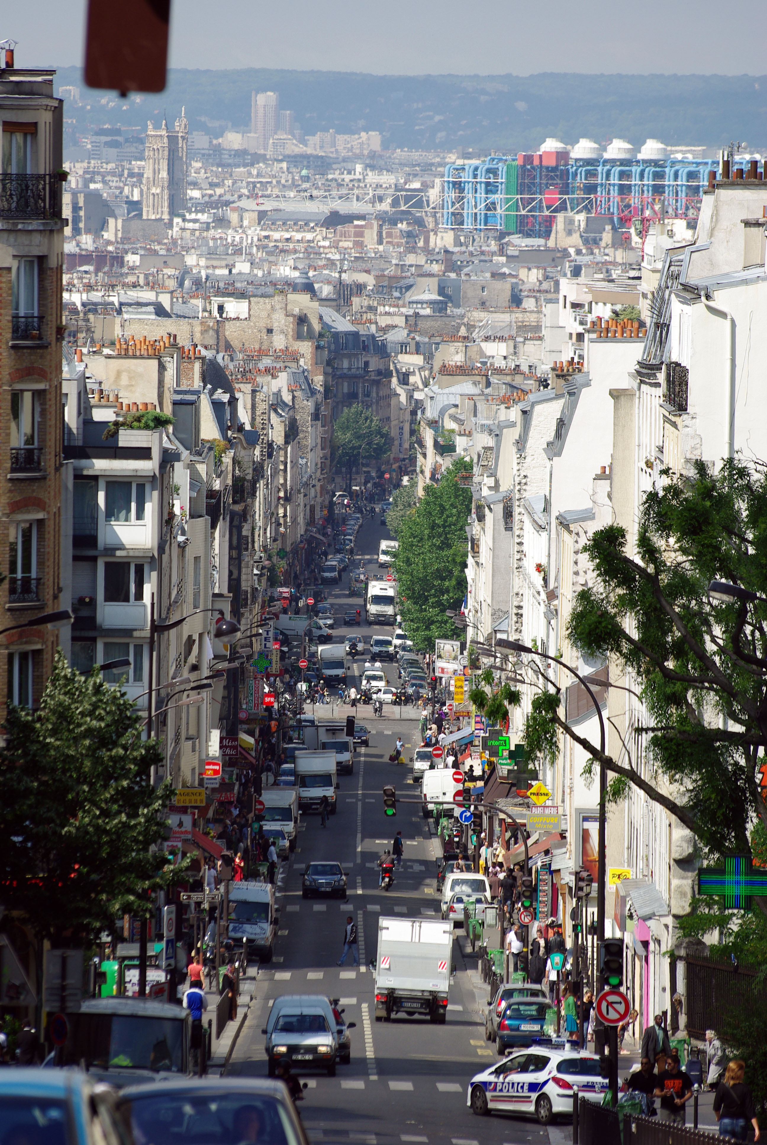 Ménilmontant street with view of Paris and Beaubourg in the background.